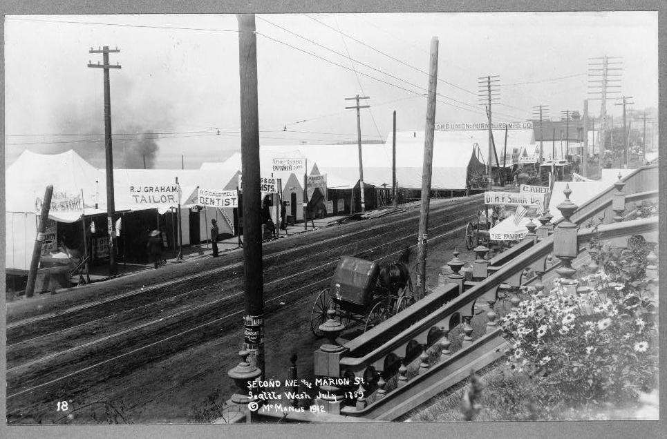 Second Ave. and Marion St., Seattle, Wash., July 1889. This would be just after the Great Fire.